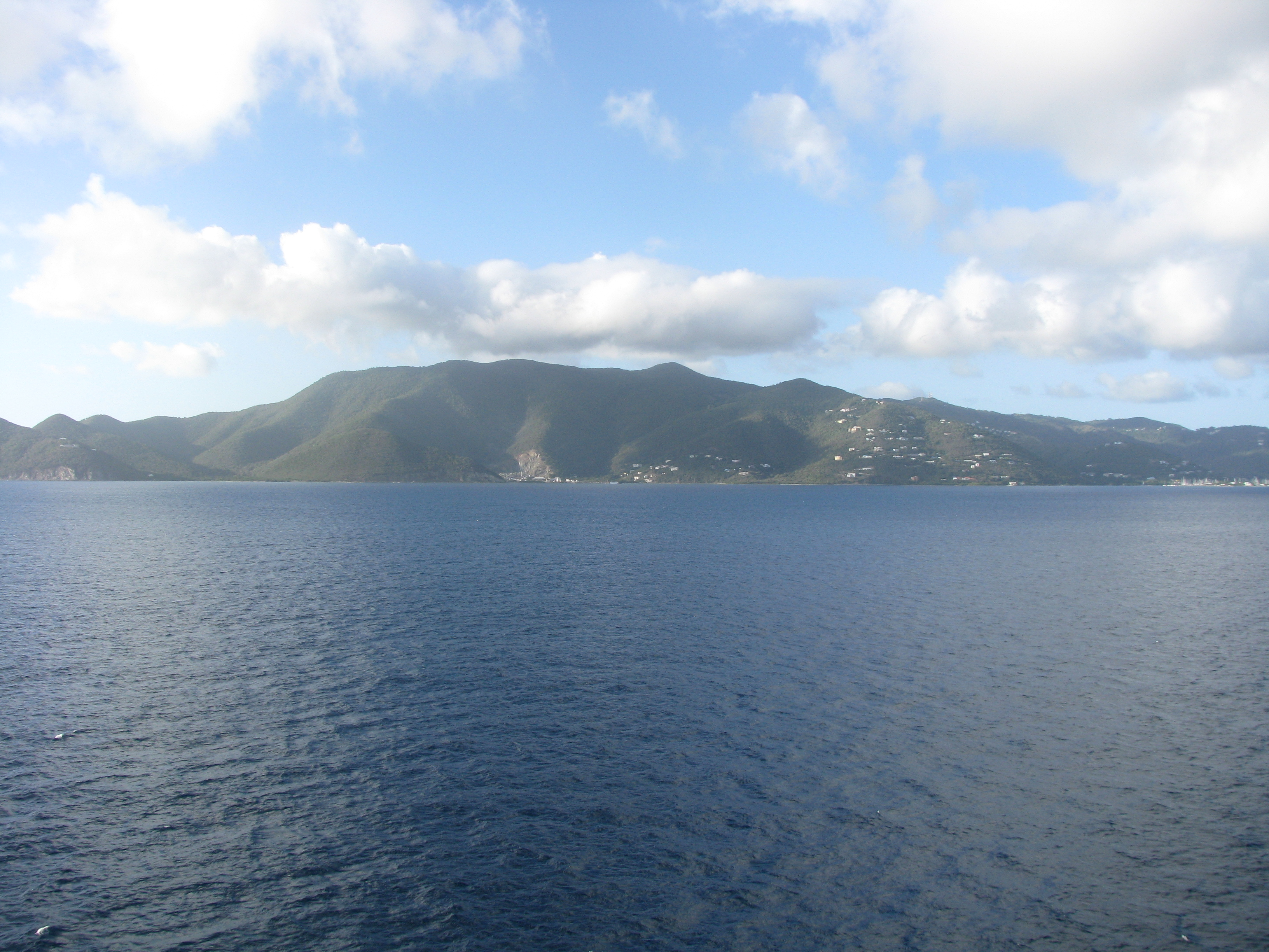 View of Road Town on Tortola, British Virgin Islands leaving port from the cruise ship Norwegian Dawn.